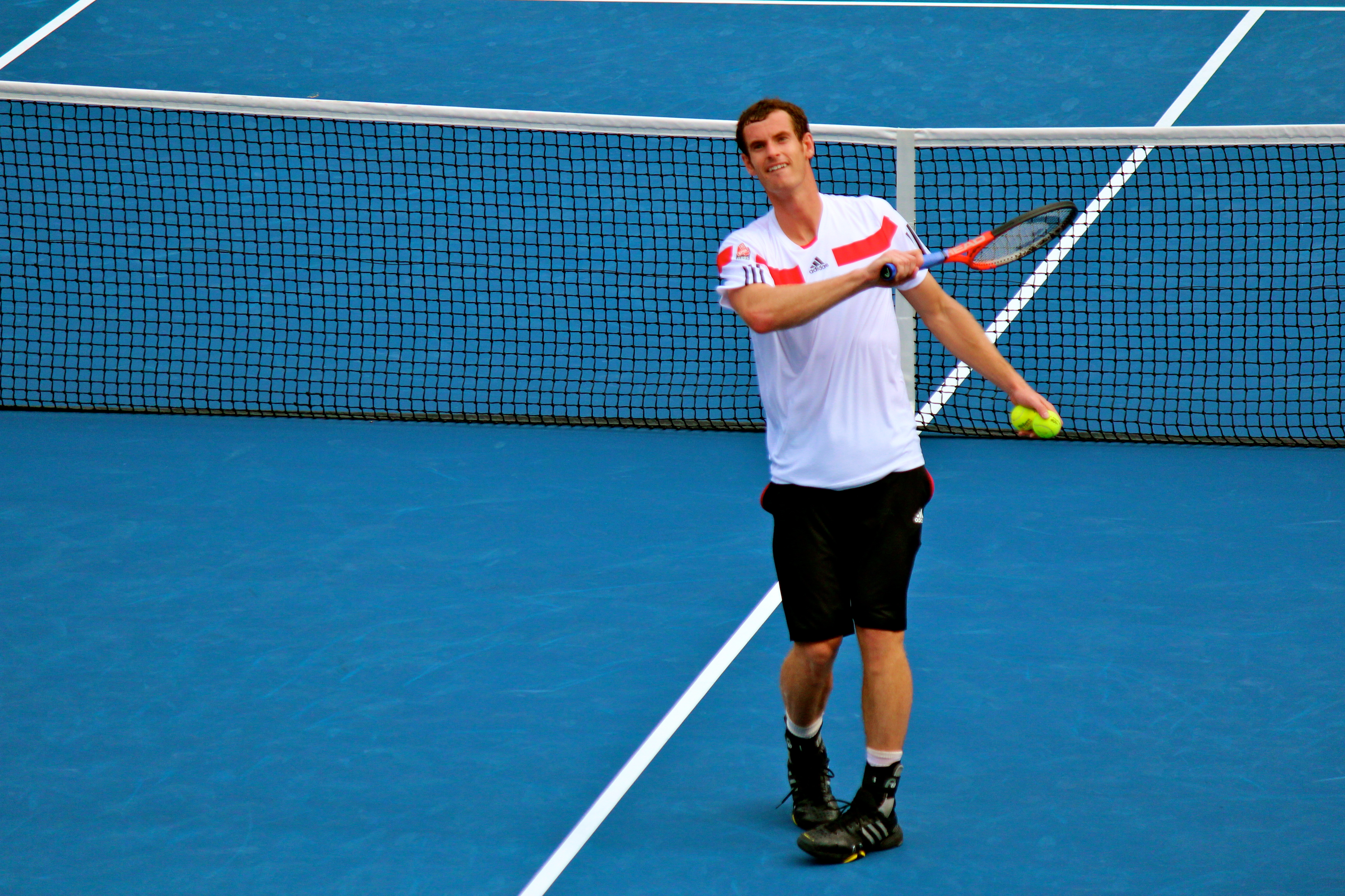 Andy Murray at the 2013 US Open